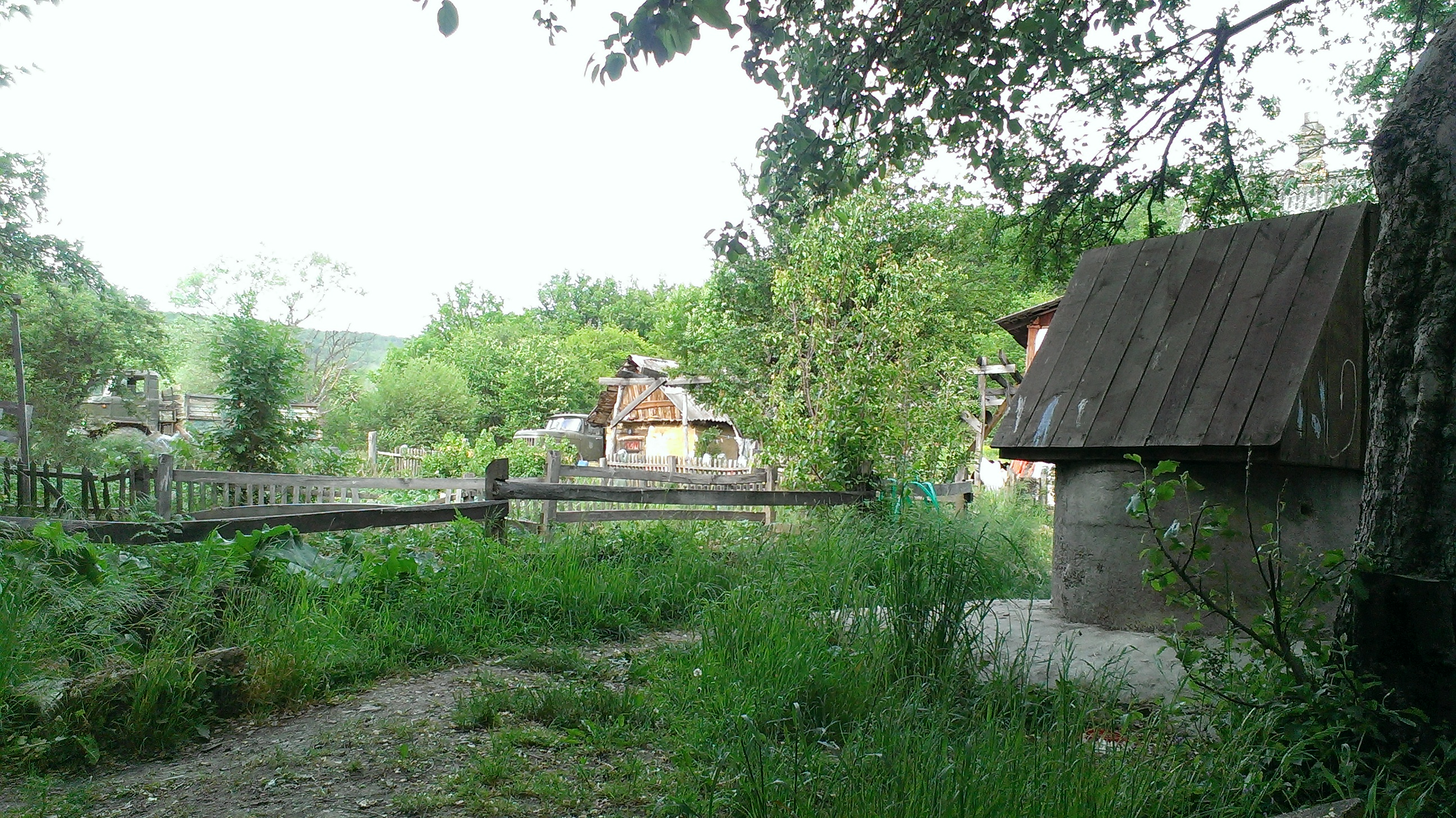 Sosnovoe Forestry, formerly village Dorozhnoe, Bakhchisaray district, Crimea.